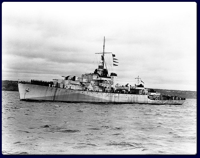 Photograph of Canadian River class figate HMCS Charlottetown (K244)